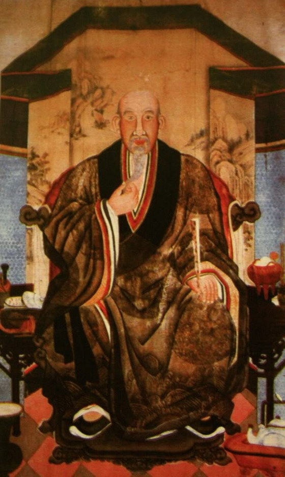 Exhibit in the Vietnam National Museum of Fine Arts - Hanoi, Vietnam. This artwork is old enough so that it is in the public domain.